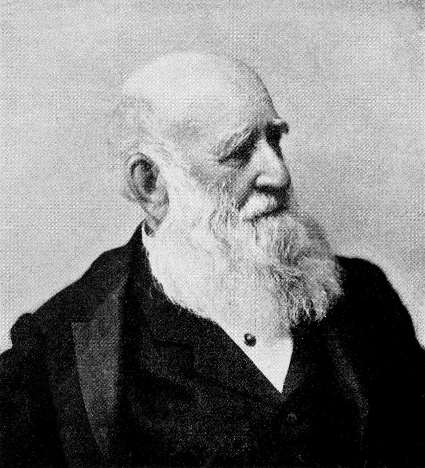 Plate 19 from Makers of British botany (1913), depicting Joseph Henry Gilbert (1817–1901).